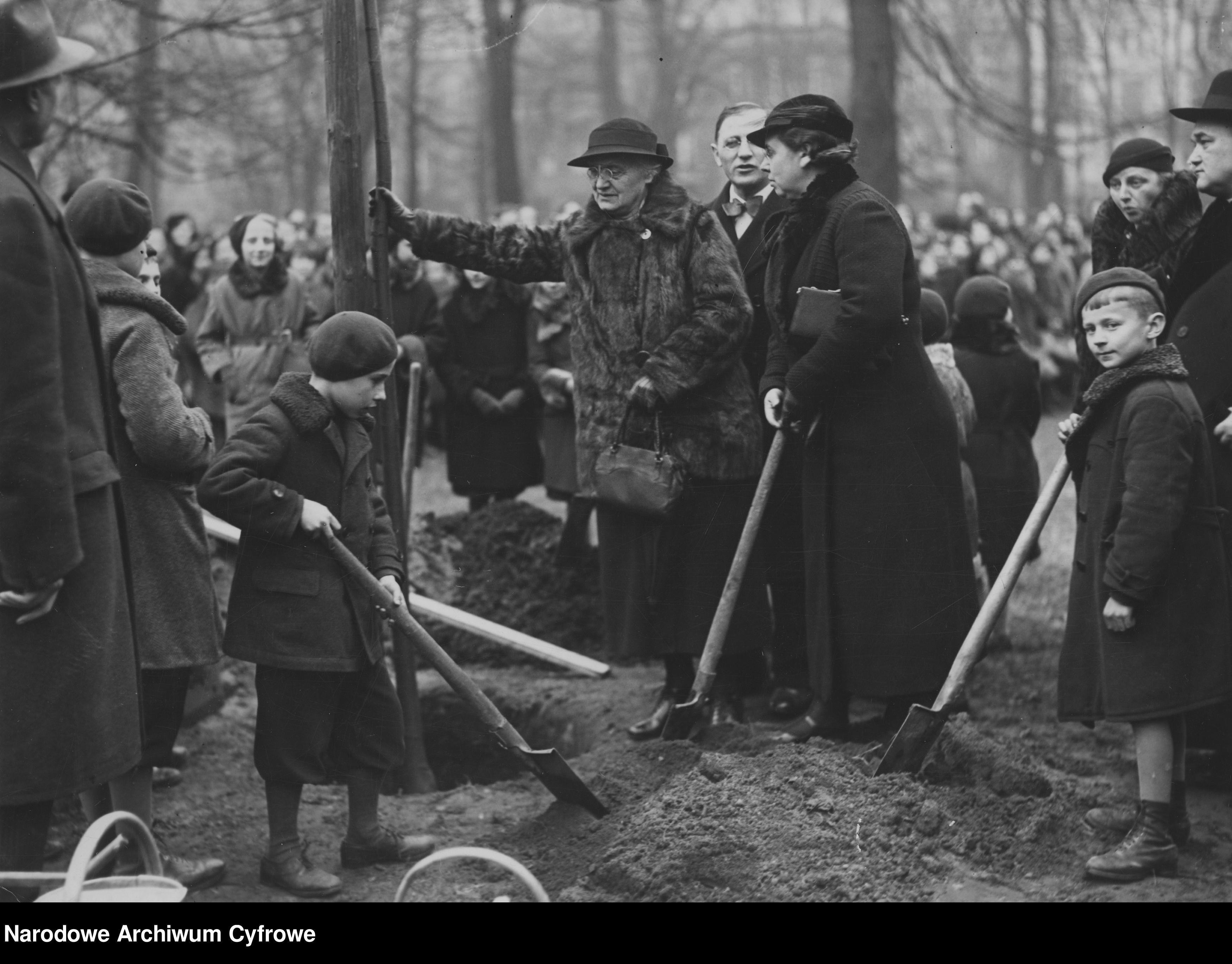 Students of primary school No. 38 Maria Skłodowska-Curie while planting a tree named after her in the Saxon Garden in Warsaw. The sister of the scientist Helena Szalayowa is holding a tree. Next to her are Inspector Szczerba and the headmaster of the Wojciechowska school.